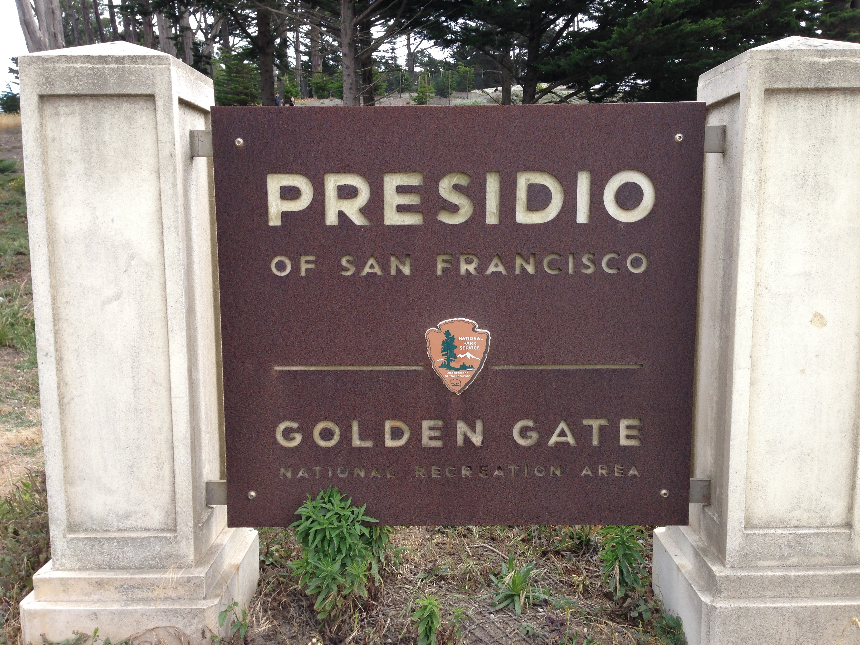 San Francisco, California, by the Golden Gate Bridge